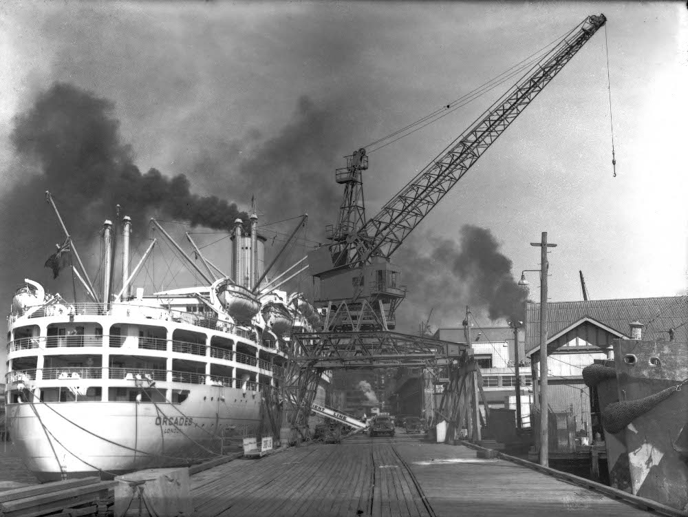 The vessel 'Orcades' docked at No.13 passenger terminal, Pyrmont Dated: No date Digital ID: 9856_a017_A017000073 Rights: We'd love to hear from you if you use our photos. Many other photos in our collection are available to view and browse on our website using Photo Investigator.